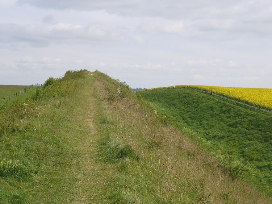 Devil's Dyke, just south of where it crosses the B1102, at Gallow's Hill near Burwell. May 14, 2005.